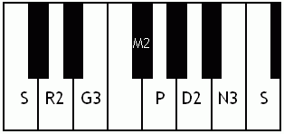 Notes of the Kalyani ragam in Carnatic music shown in a keyboard layout. See swaras in Carnatic music for details on the notation used. In this image C is used as Shadjam for simplicity sake only. In Carnatic music any note can be the tonic note (sruti), which is taken as Shadjam note. This image is for use in Wikipedia ragam articles and articles related to Carnatic music.